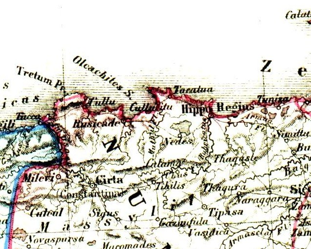 Detail with Milevi, Hippo Regius and Thagaste of the old map of Numidia From Heinrich Kiepert's Atlas Antiquus, 1869 ==